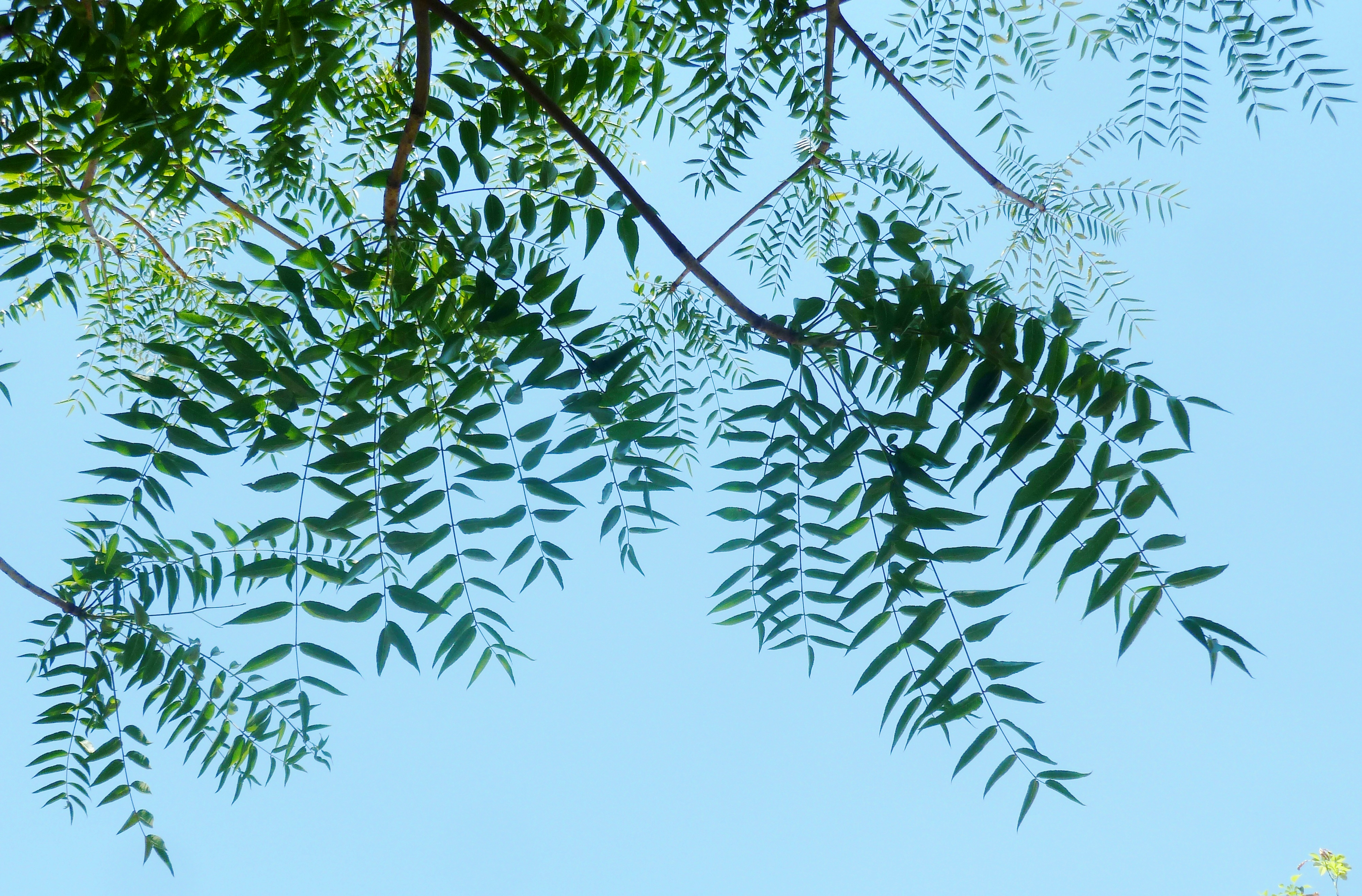 Foliage of a White seringa in Manie van der Schijff Botanical Garden, Pretoria